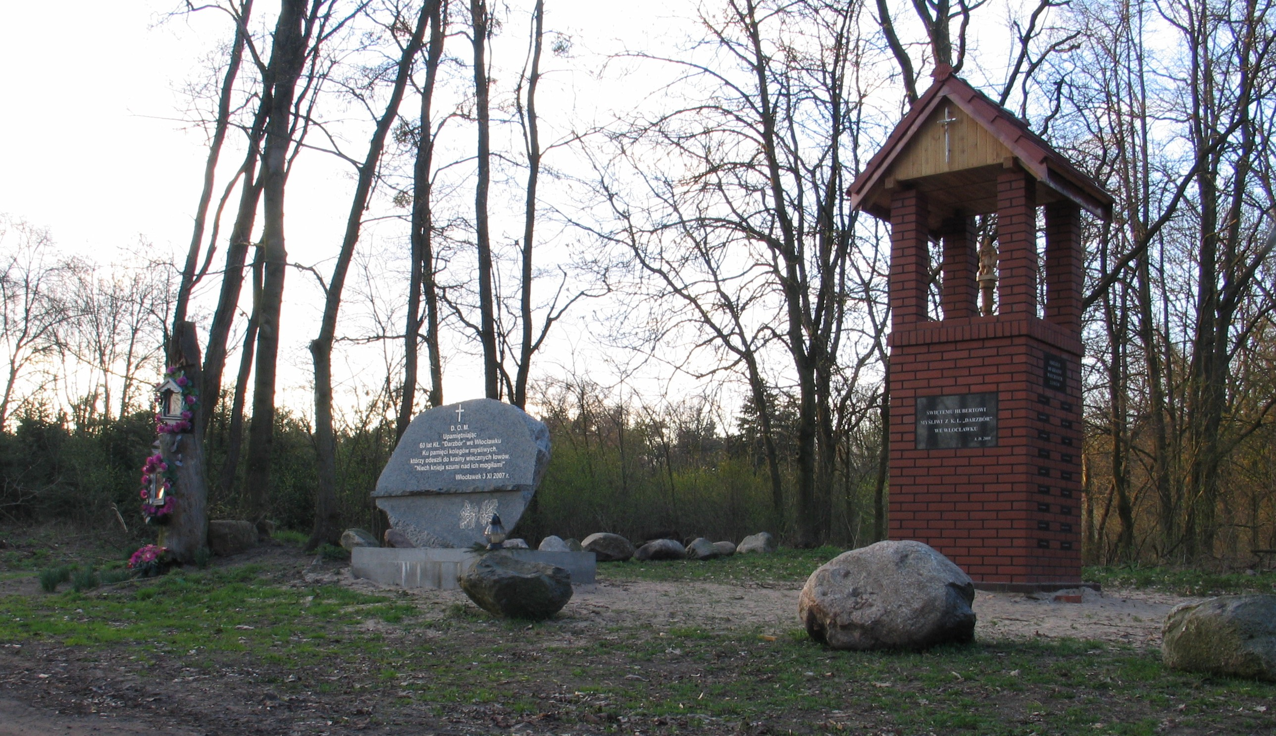 Lipiny forester's lodge – wayside shrines